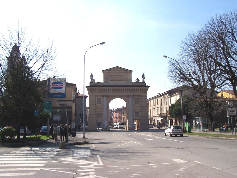 Crema - Serio Gate